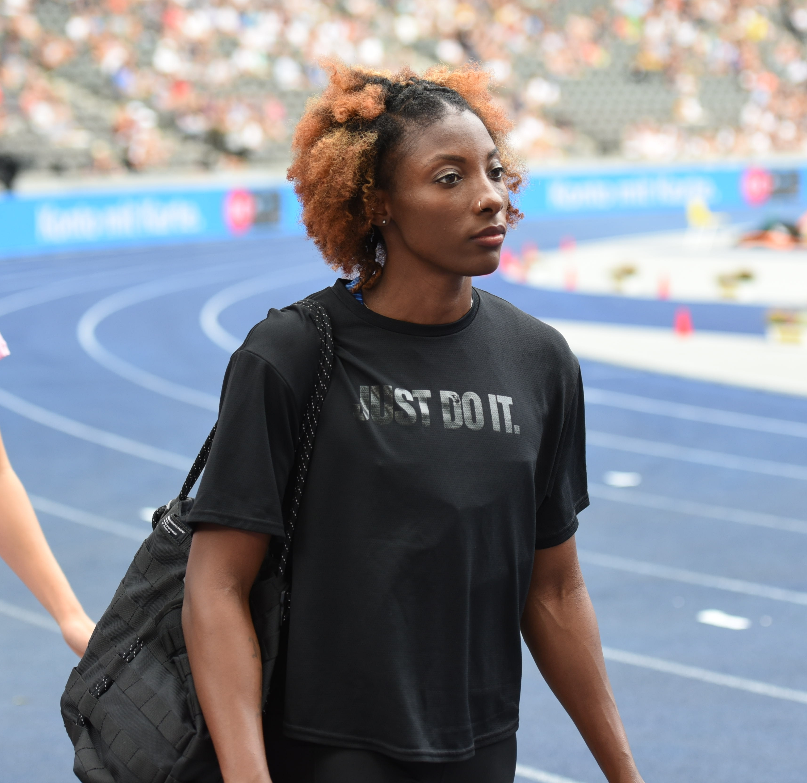 100 m hurdles at the ISTAF 2019 on 1 September 2019 in Berlin, Germany.